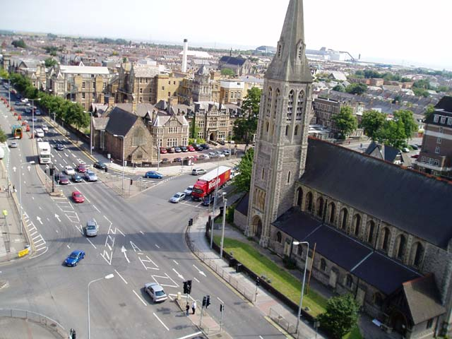 Junction of Newport Road, City Road & Glossop Road Glossop Road is to the right between St James church and Cardiff Royal Infirmary, City Road just to the bottom left. The steelworks at Tremorfa are in the distance.